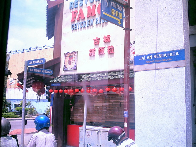 The famous chicken rice ball shop located in Malacca, Malaysia.